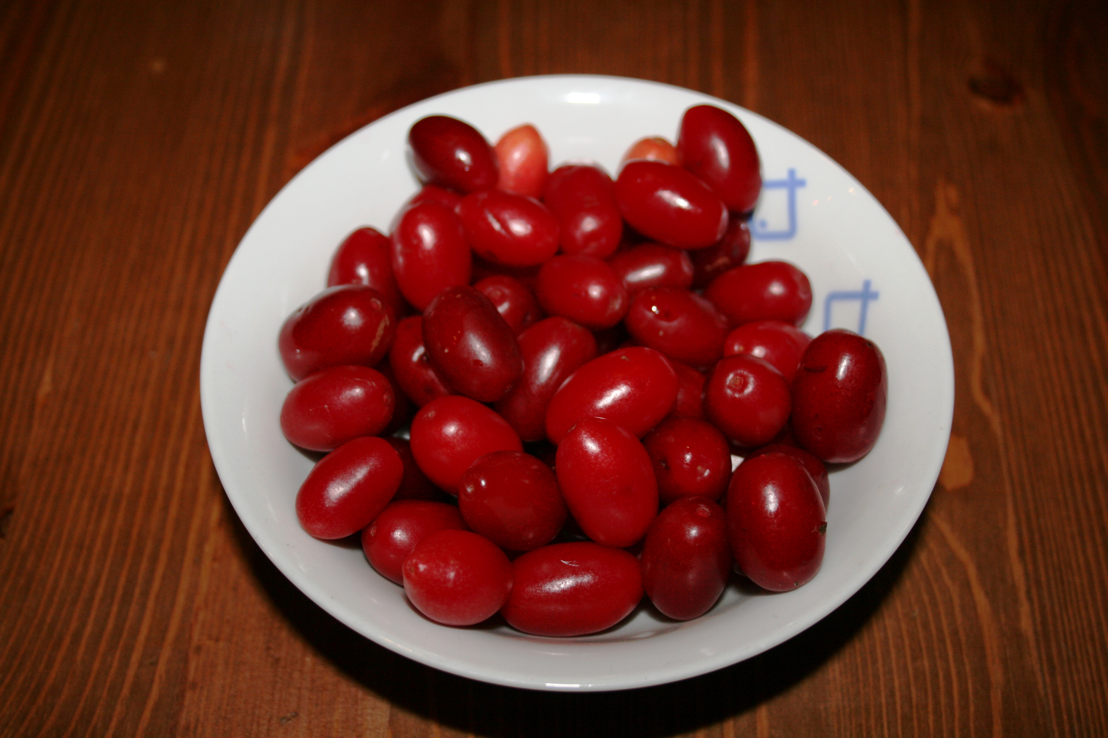 Fruits of European Cornel (Cornus mas), bought in Graz, Austria